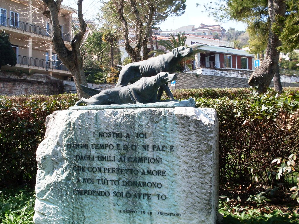 Italy Ancona Passetto - Dog Monument inscription